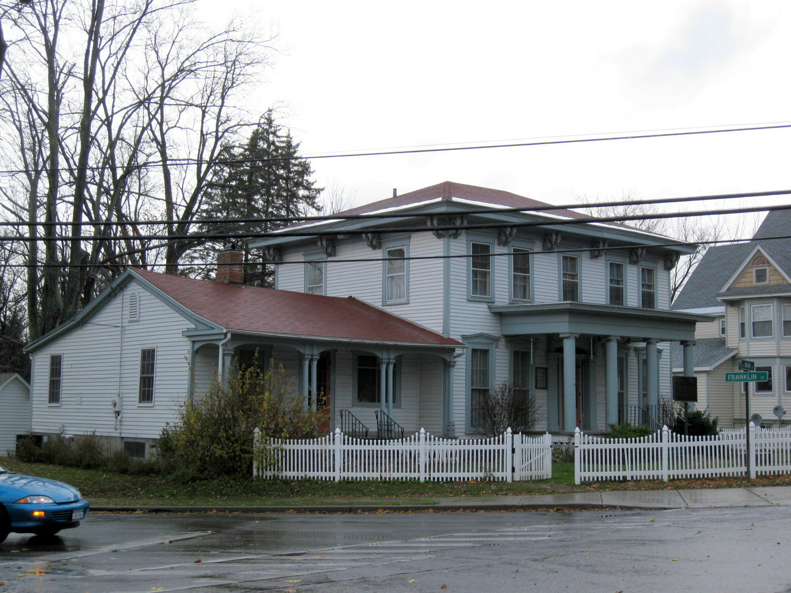 Warner Historical Museum (George Crandall house), Springville, New York, November 2009